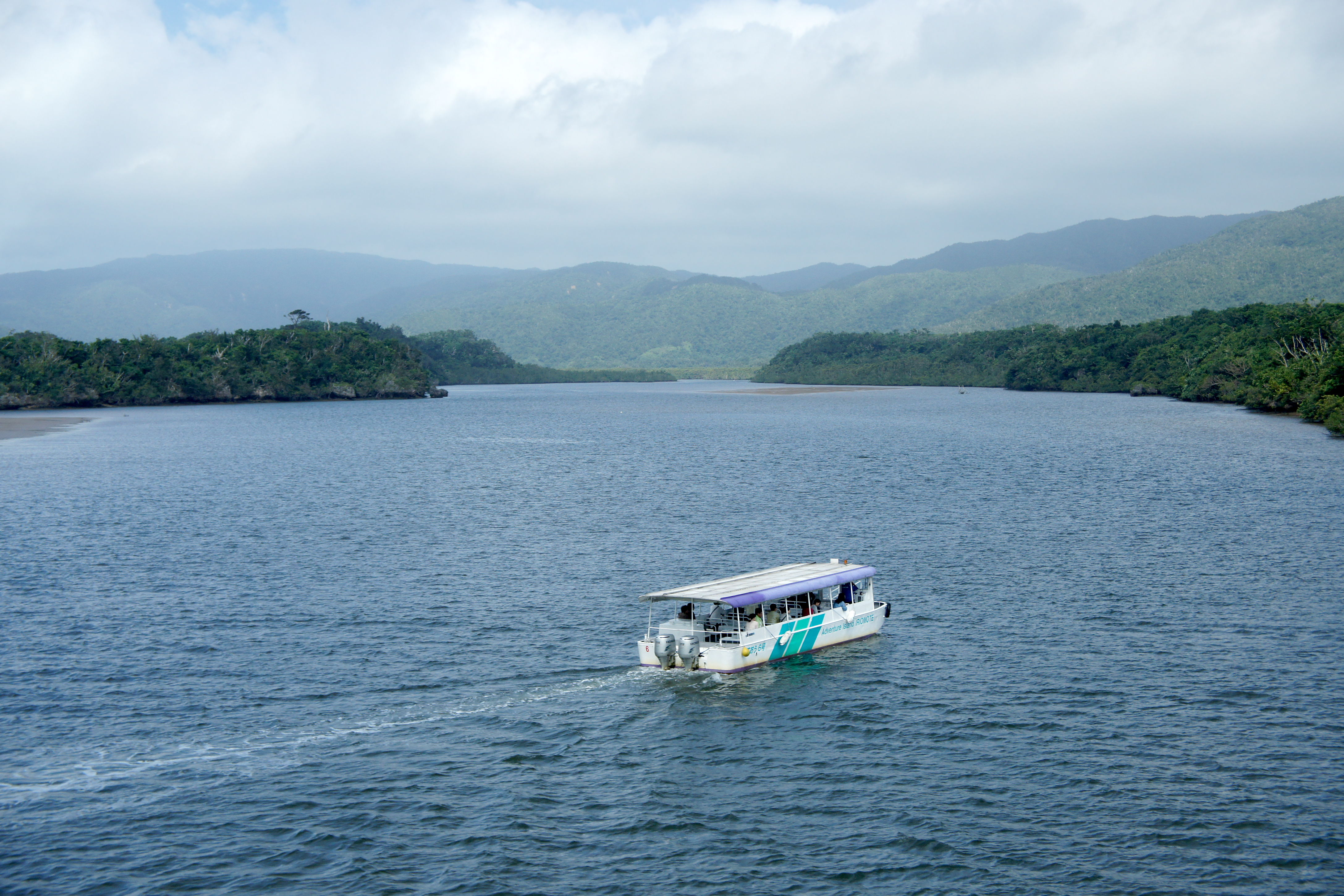 Nakama_River in Iriomote Island, Taketomi Town, Okinawa Prefecture, Japan.